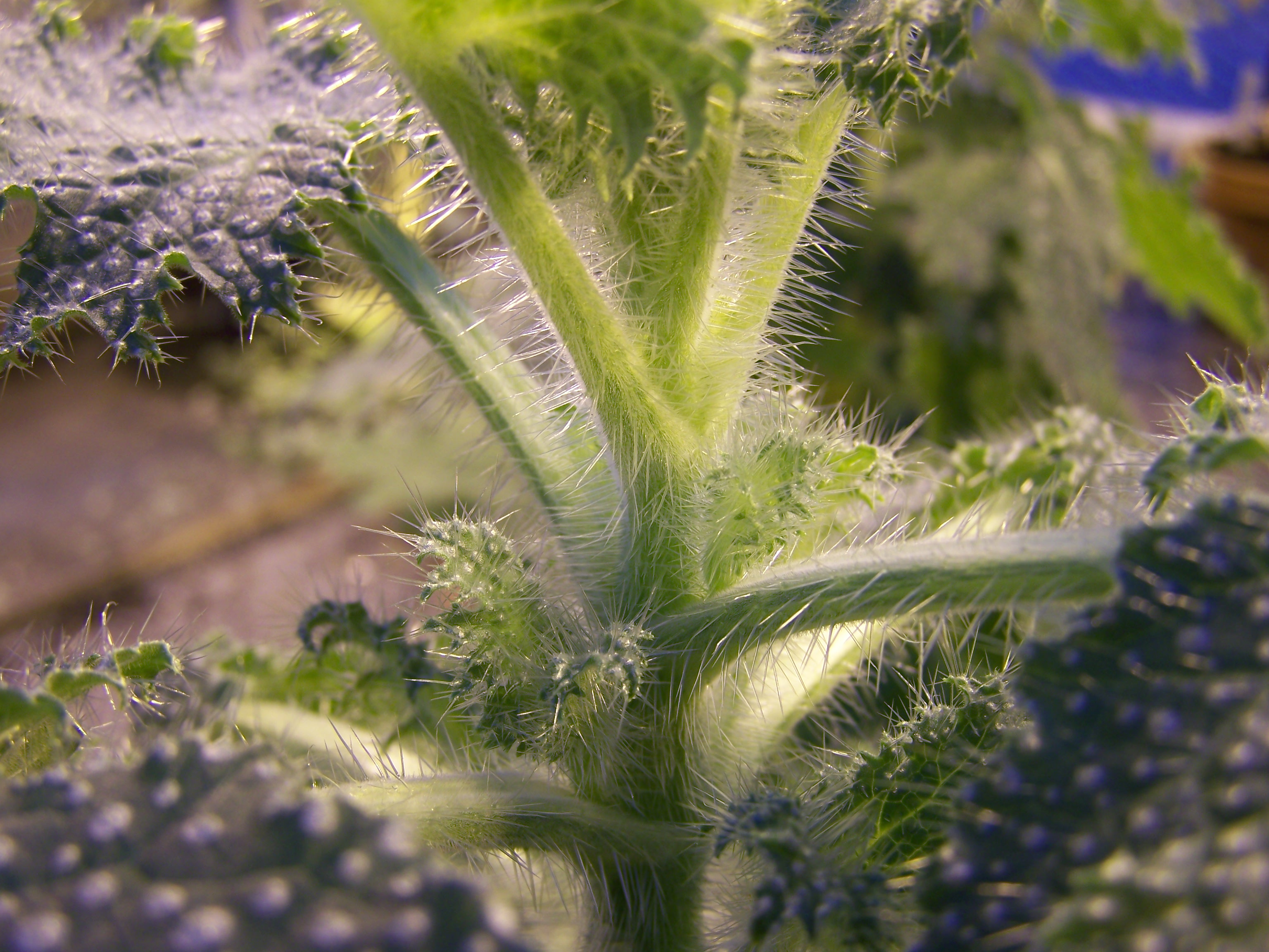 stinging hairs from Loasa spec.